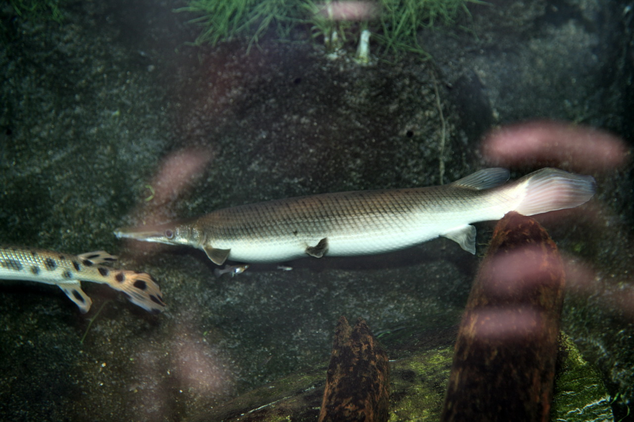 The shortnose gar (Lepisosteus platostomus) is a primitive freshwater fish of the family Lepisosteidae. In Greek, Lepisosteus translates to "bony scale," whereas platostomus means "broad mouth." Shortnose gar can be discerned from other gar species in that they lack the upper jaw of the alligator gar, the long snout of the longnose gar, and the markings of the spotted gar.